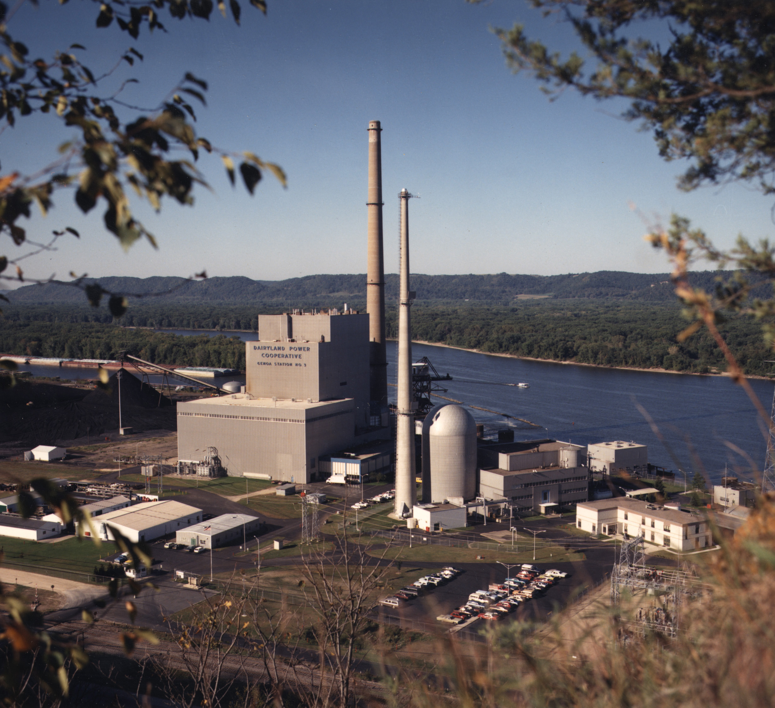 The La Crosse Boiling Water Reactor (LACBWR) is located on the east bank of the Mississippi River in Vernon County, WI in NRC Region III.